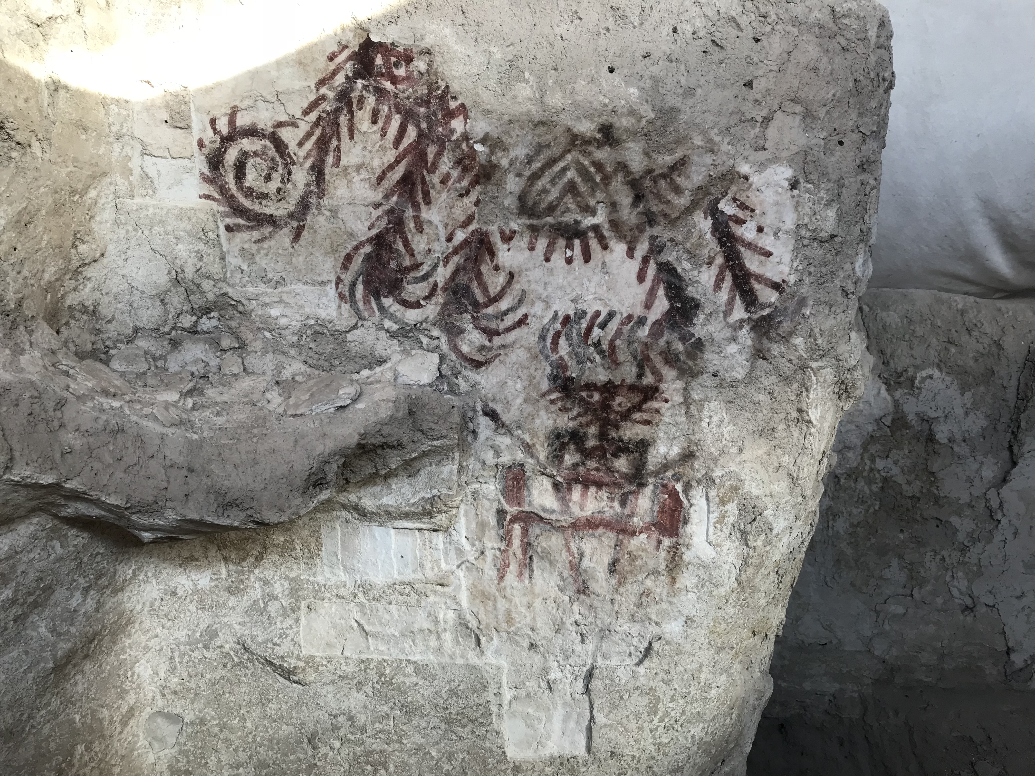 Mural paintings in Arslantepe Ruins, Malatya, Turkey.